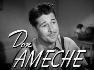 Screenshot of Don Ameche from the trailer for the film The Feminine Touch.